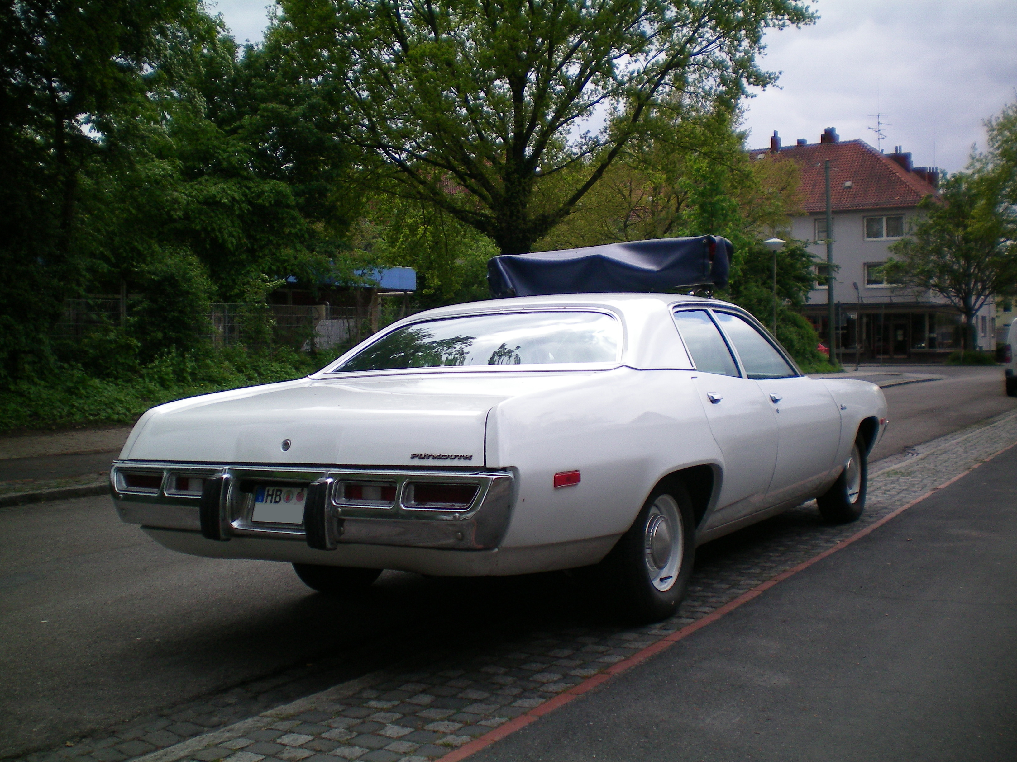 rear